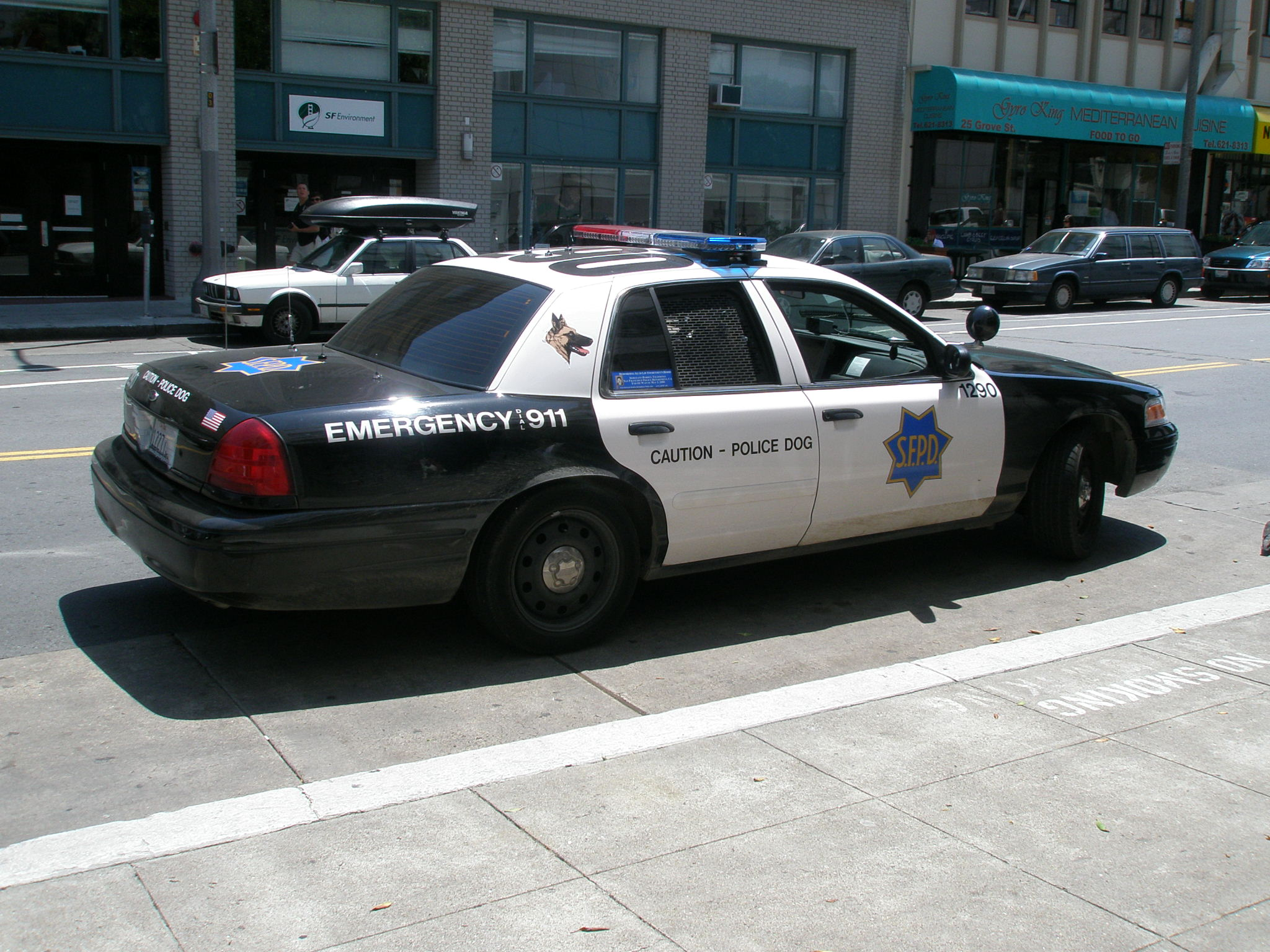 San Francisco Police Cruiser (K-9)